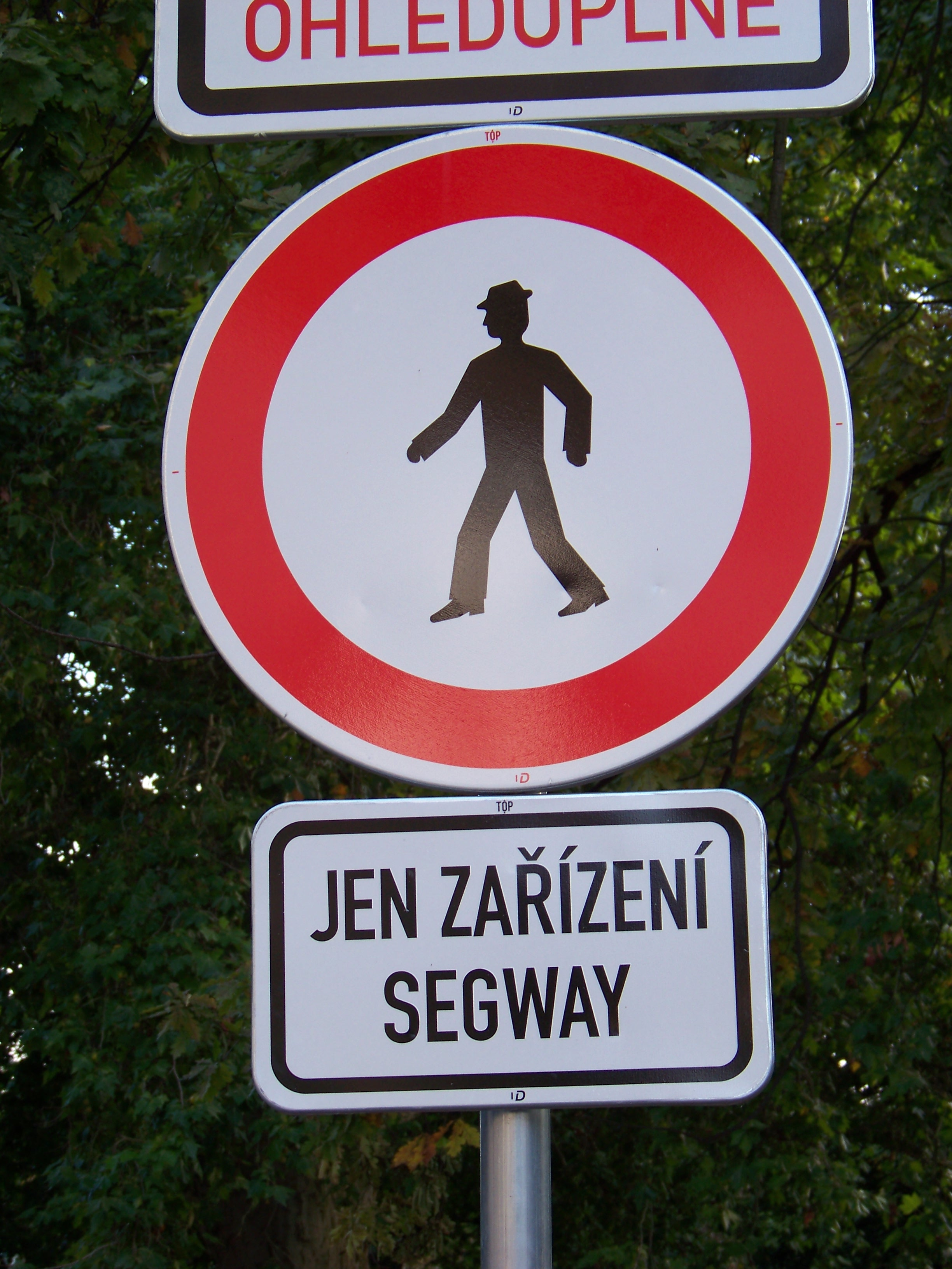 Prague-Malá Strana, Czech Republic. Kampa Park, U Sovových mlýnů street. Road sign - Segway forbidden.